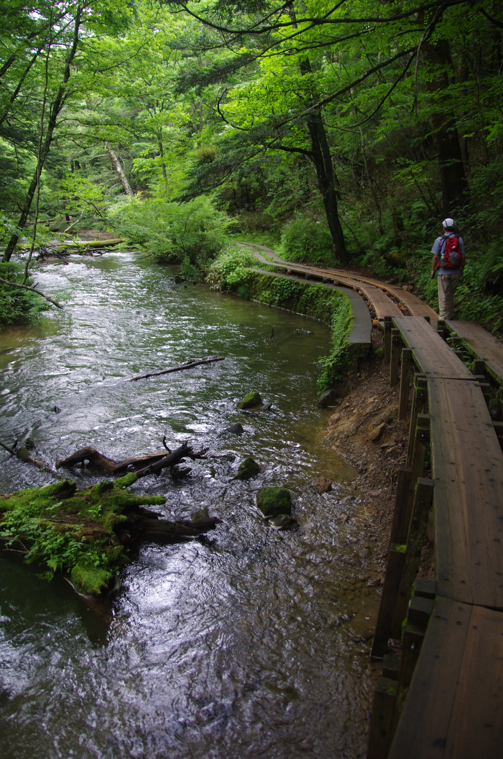 Japan: the Yu river in Senjōgahara (Nikkō, Tochigi prefecture).